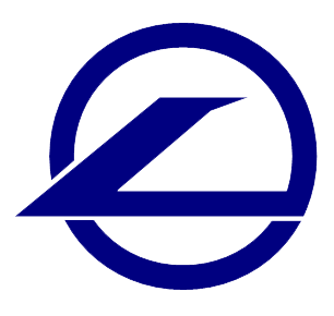 Osaka Monorail Logo